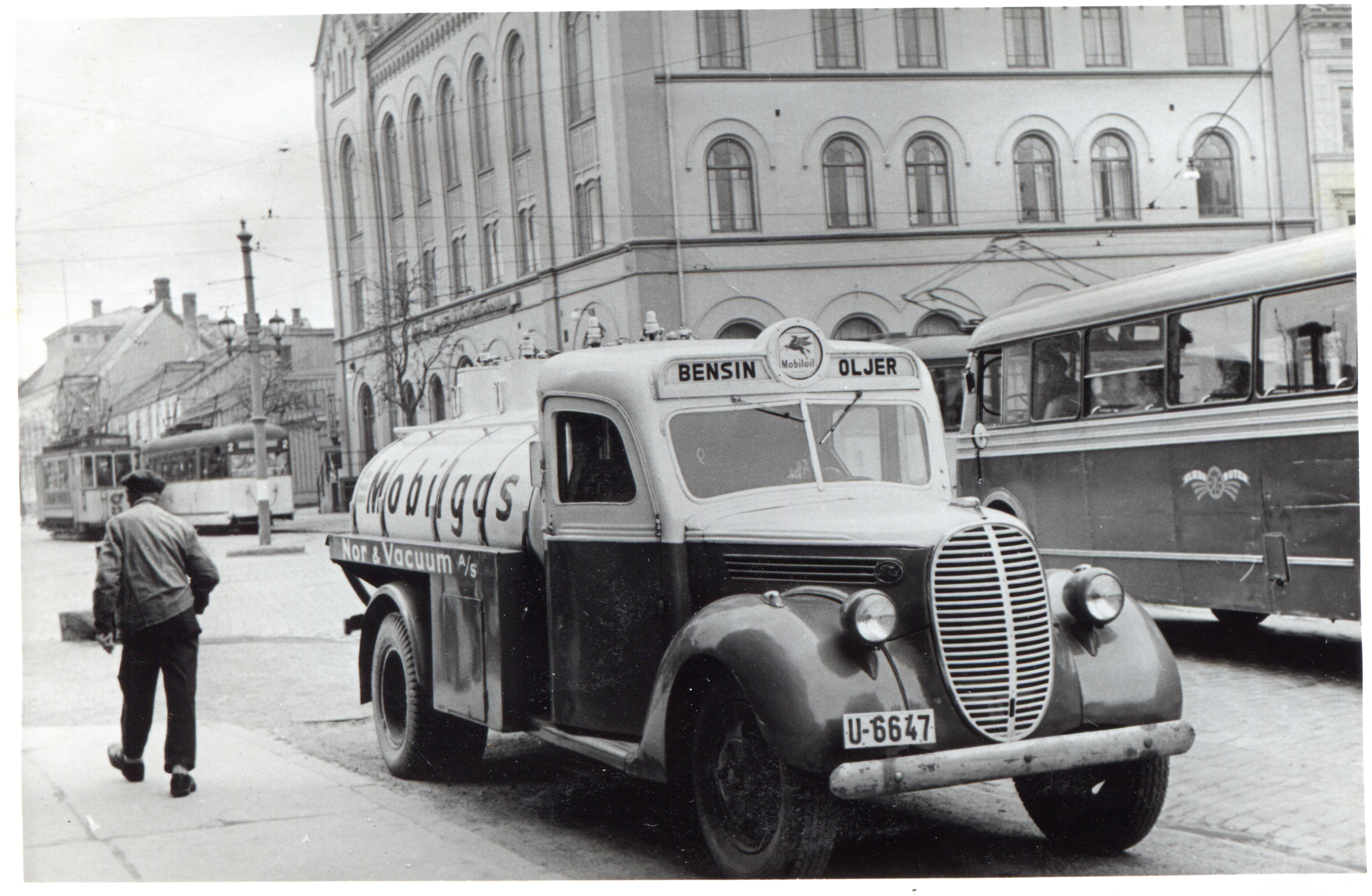 Nor og Vacuum tankbil. Bil nr. 140, regnr. U-6647, M. Sæther.